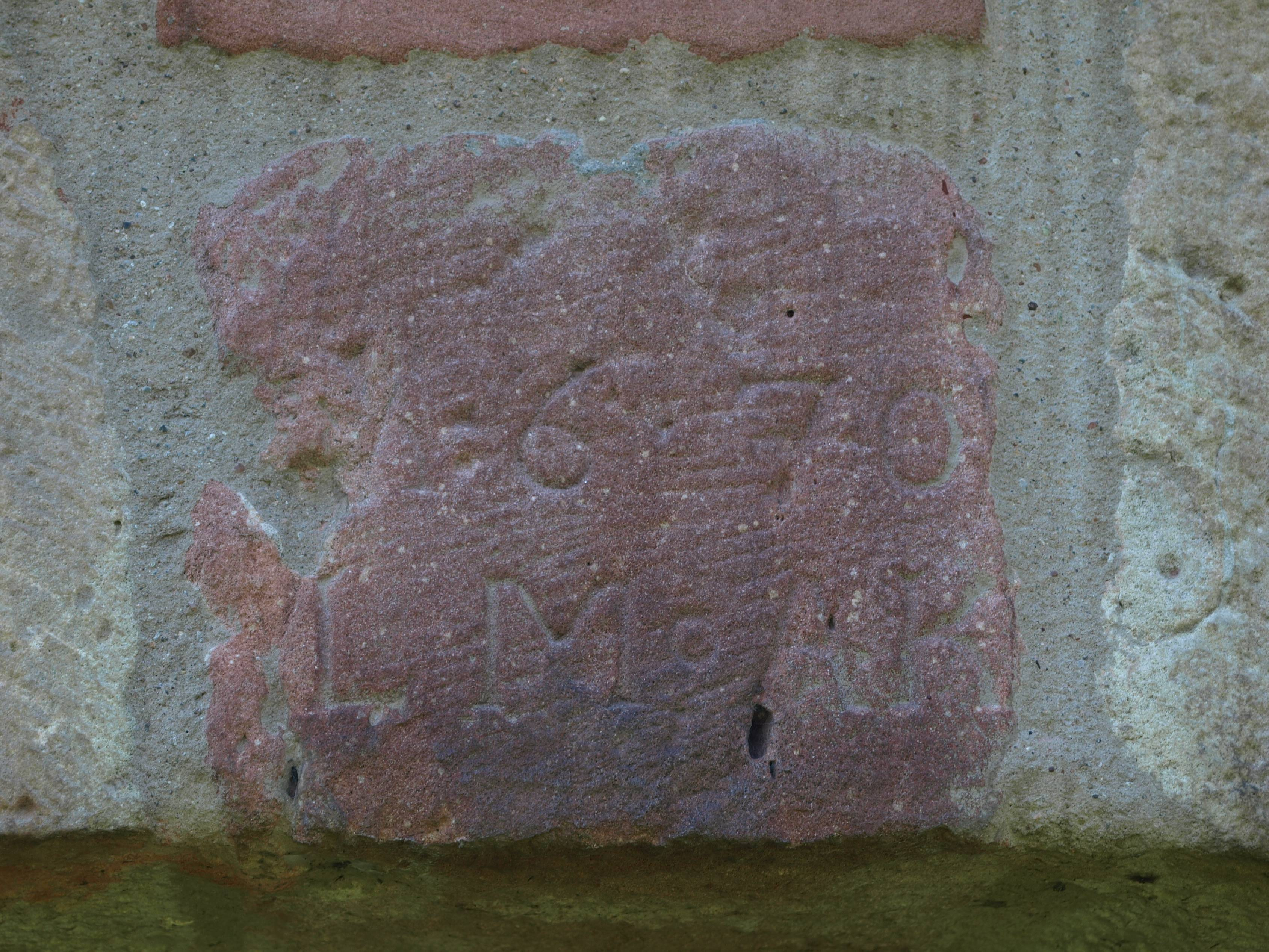 Werrabrücke Vacha, one of the keystones, at the summit of an bridge arch with the date 1670